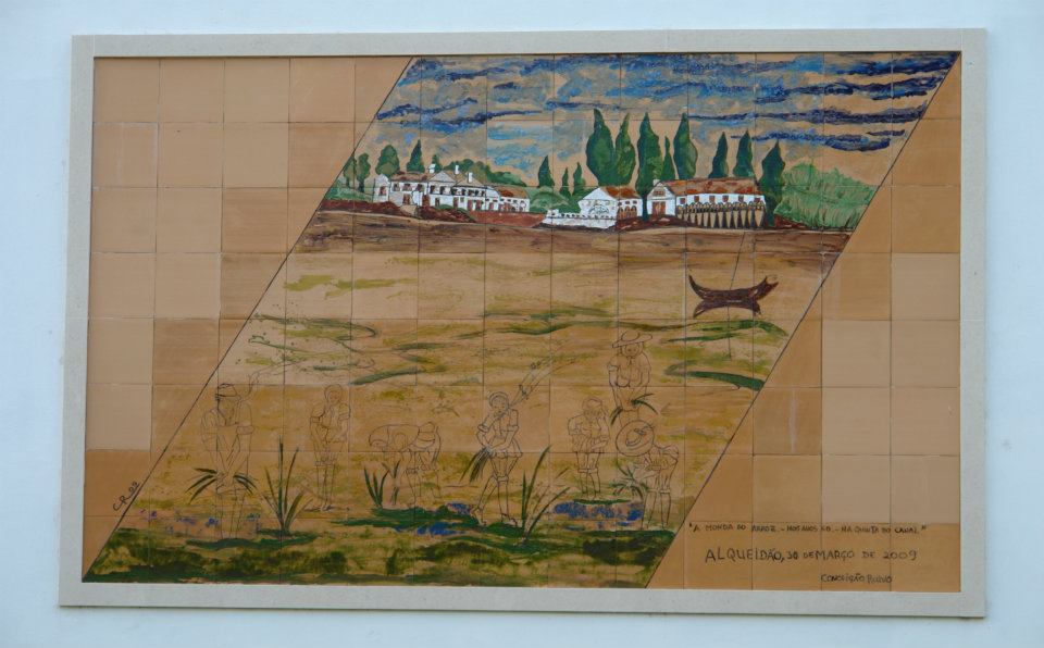 Painel de Azulejos